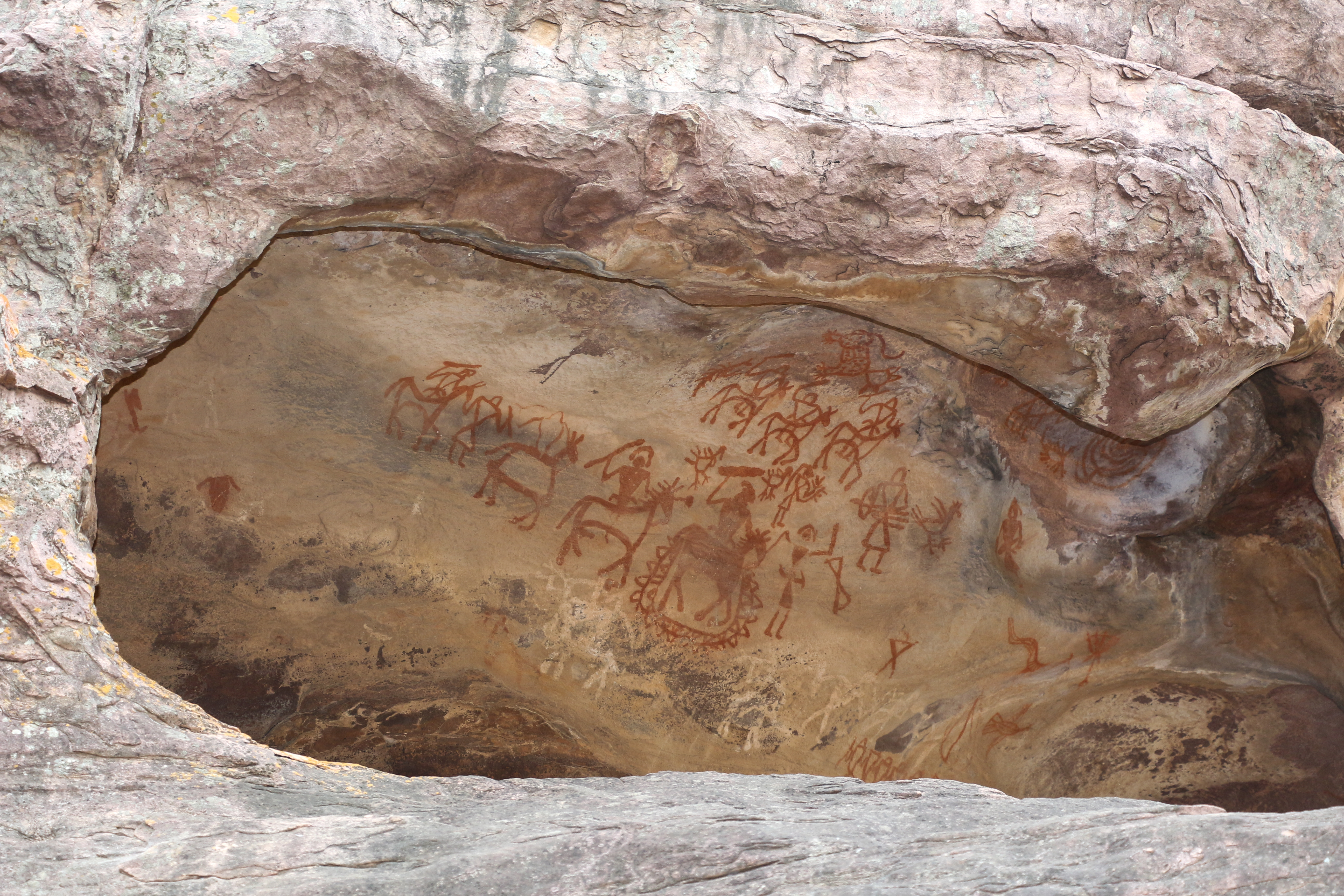 Paintings in Rock Shelter 8, Bhimbetka, India